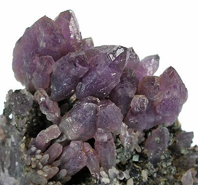 Quartz Locality: Porkura, Transylvania, Romania Size: small cabinet, 6.1 x 6.0 x 4.3 cm Amethyst An important historic specimen, these intense lavender-colored amethysts with an almost silky texture to them are few and far between. This miniature has great aesthetics, with real rock matrix as a perch for 1 inch amethysts. It has never been cleaned, and so is a bit "dirty"; but I like the antique look of it. Note the handwritten label from William S. Vaux (1811-1882), whose collection formed the core of the Philadelphia Academy of Natural Sciences. This piece, obviously, was traded out long ago befor ethe collections there went into storage and were eventually sold to a consortium of mineral dealers recently.